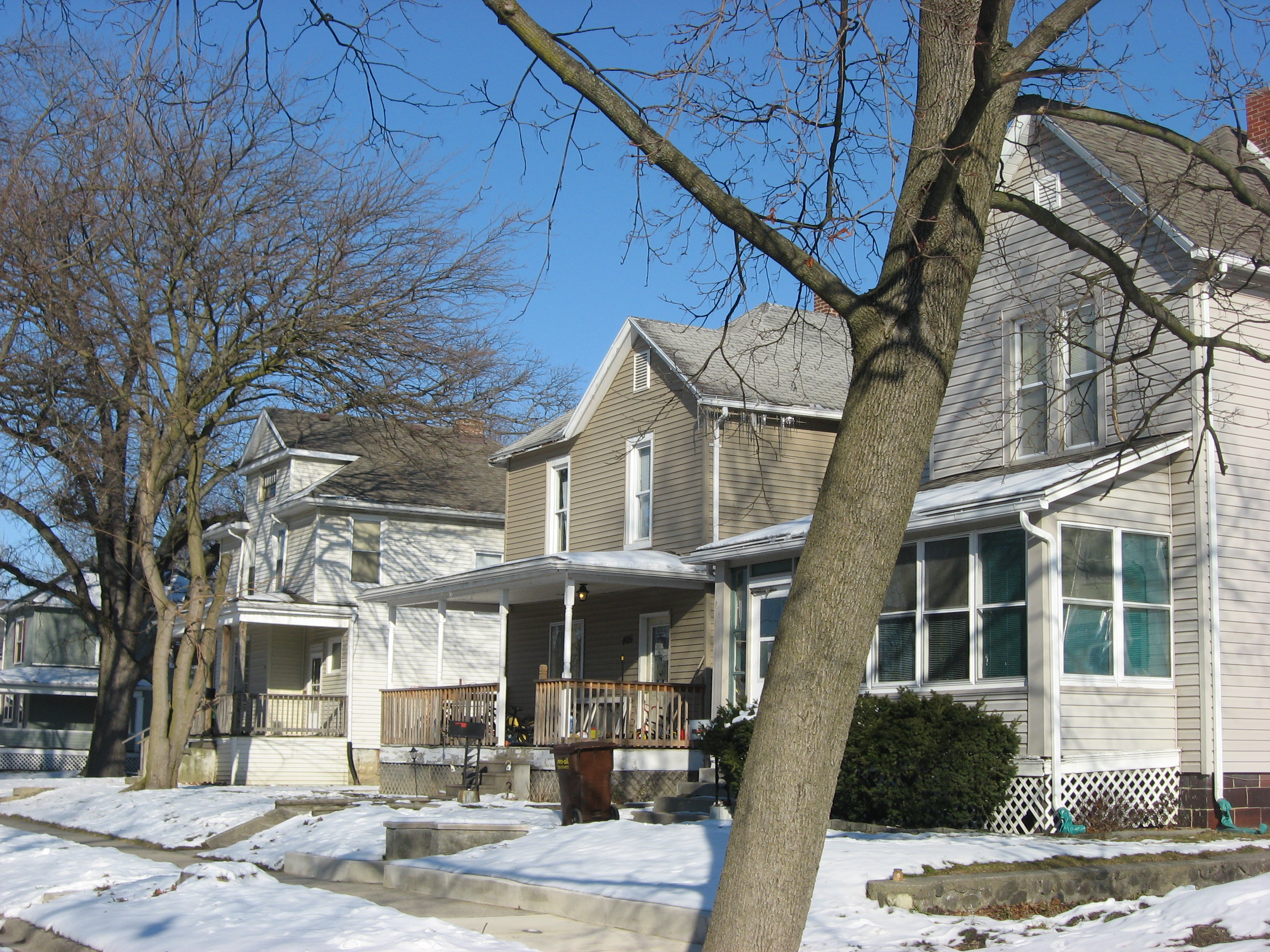 Houses at 319, 401, 405, and 407 S. Franklin Street in Garrett, Indiana, United States. Built in 1900, 1915, 1905, and 1905 respectively, they are part of the Garrett Historic District, a historic district that is listed on the National Register of Historic Places.